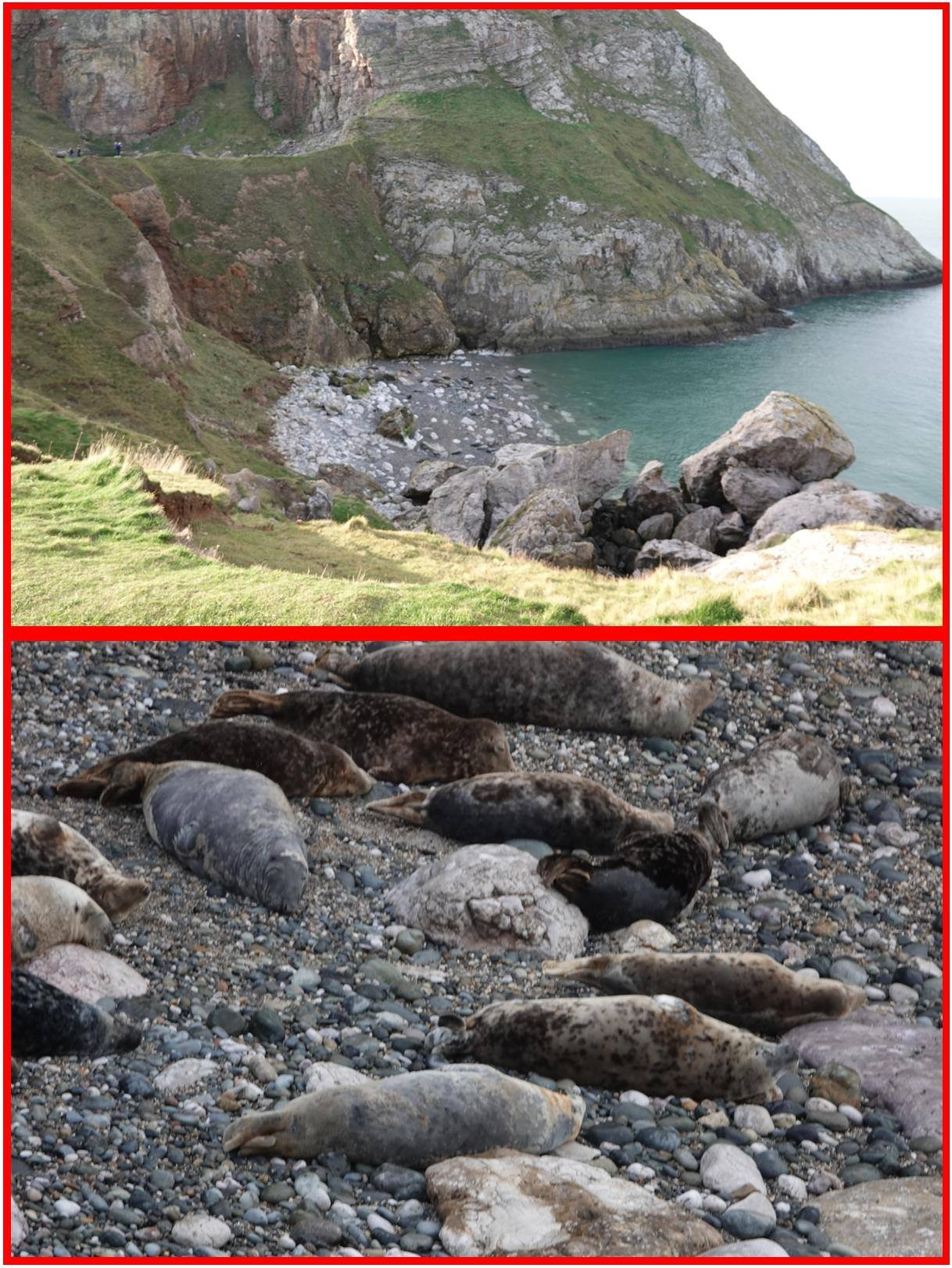 Grey seals hauled out on Bae Dyniawed, Penrhyn Bay. The name refers to seals